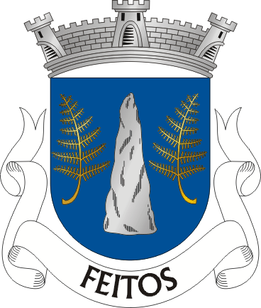 Crest of Feitos, a parish in the municipality of Barcelos (Portugal)